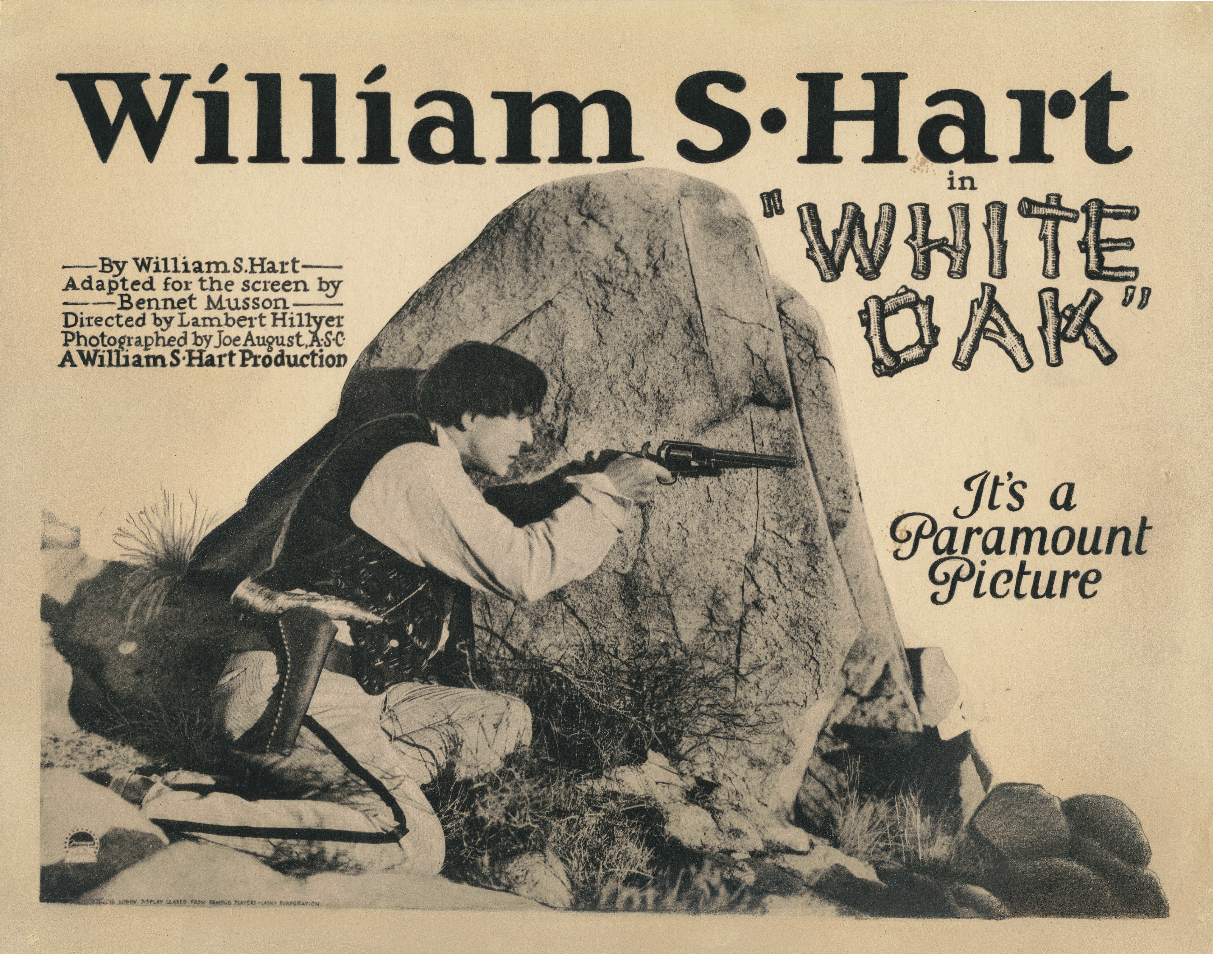 William S. Hart in the film White Oak (1921). Lobby card, approximately 27.8 x 35.5 cm.